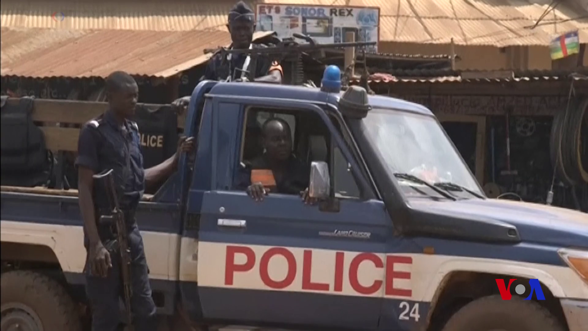 Police officers from the Central African Republic in Bangui, April 2018